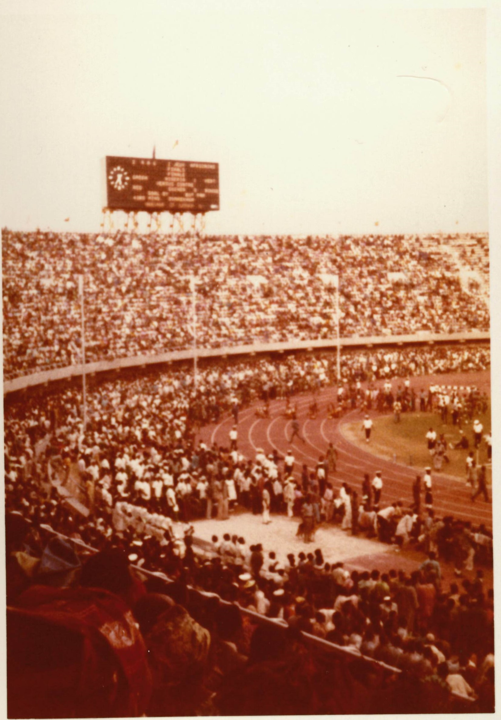 2nd All Africa Games, Lagos, Nigeria January 1973